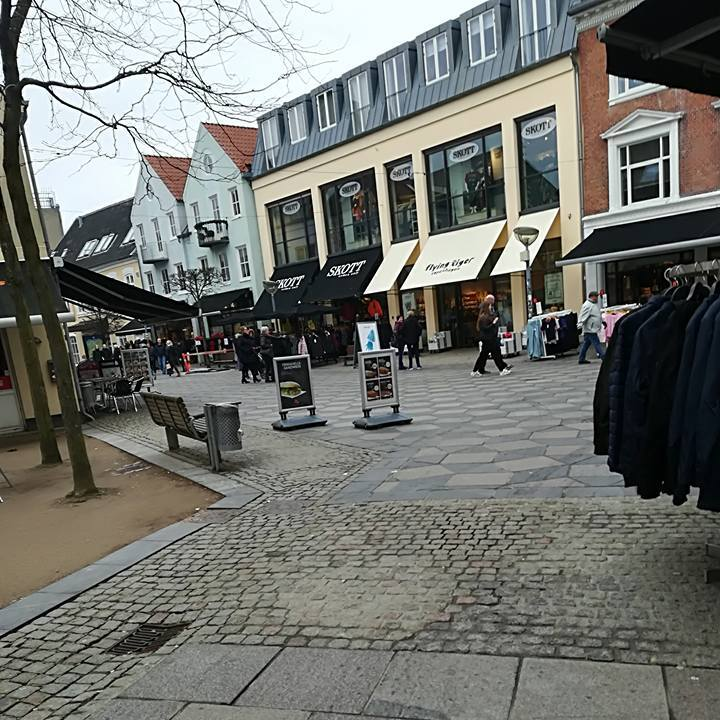 Nørregade, street in aalborg danmark